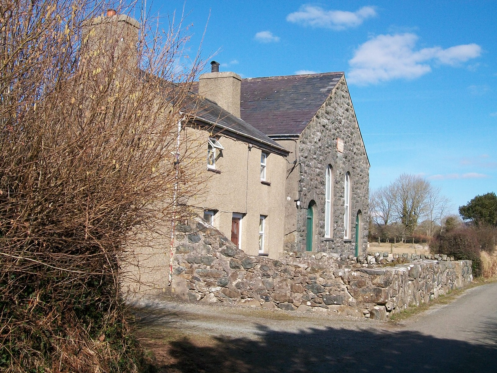 Capel y Beirdd, Ynys Capel y Beirdd (Poet's Chapel) is a Welsh Baptist place of worship. It shares its pastor with Capel Uchaf, Chwilog, Pencaenewydd, Llwyndyrys and Penuel, Tyddyn Sion. The cause was established in 1822. Its name is associated with two local classical poets, master and pupil, Robert ap Gwilym Ddu of Betws Fawr SH4639 and Dewi Wyn o Eifion of Gaerwen SH4642, although the latter was associated with the chapel only for a brief, and unhappy, period before his death and the former was never a member of any church/chapel. Even so, Capel y Beirdd has become a place of pilgrimage both for Welsh Nonconformists and lovers of Welsh poetry.